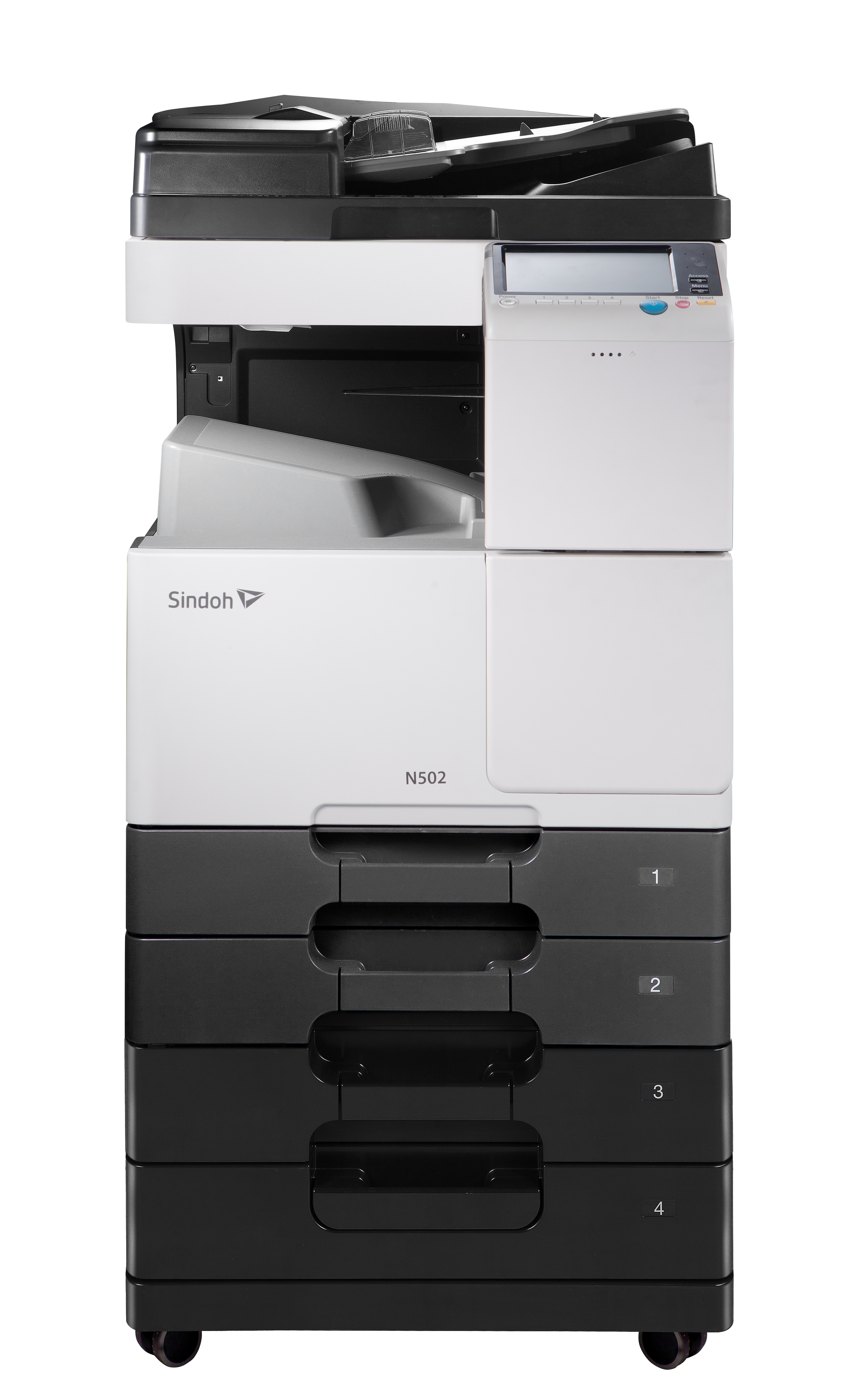 mono digital MFP N500 series